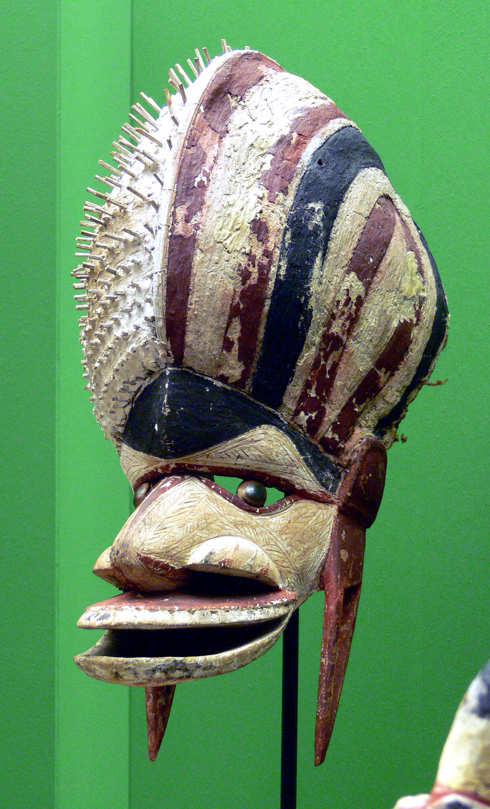 Tatanua mask; Lavongai, New Ireland; South Seas Department, Ethnological Museum, Berlin, Germany (Strauch collection 1876)